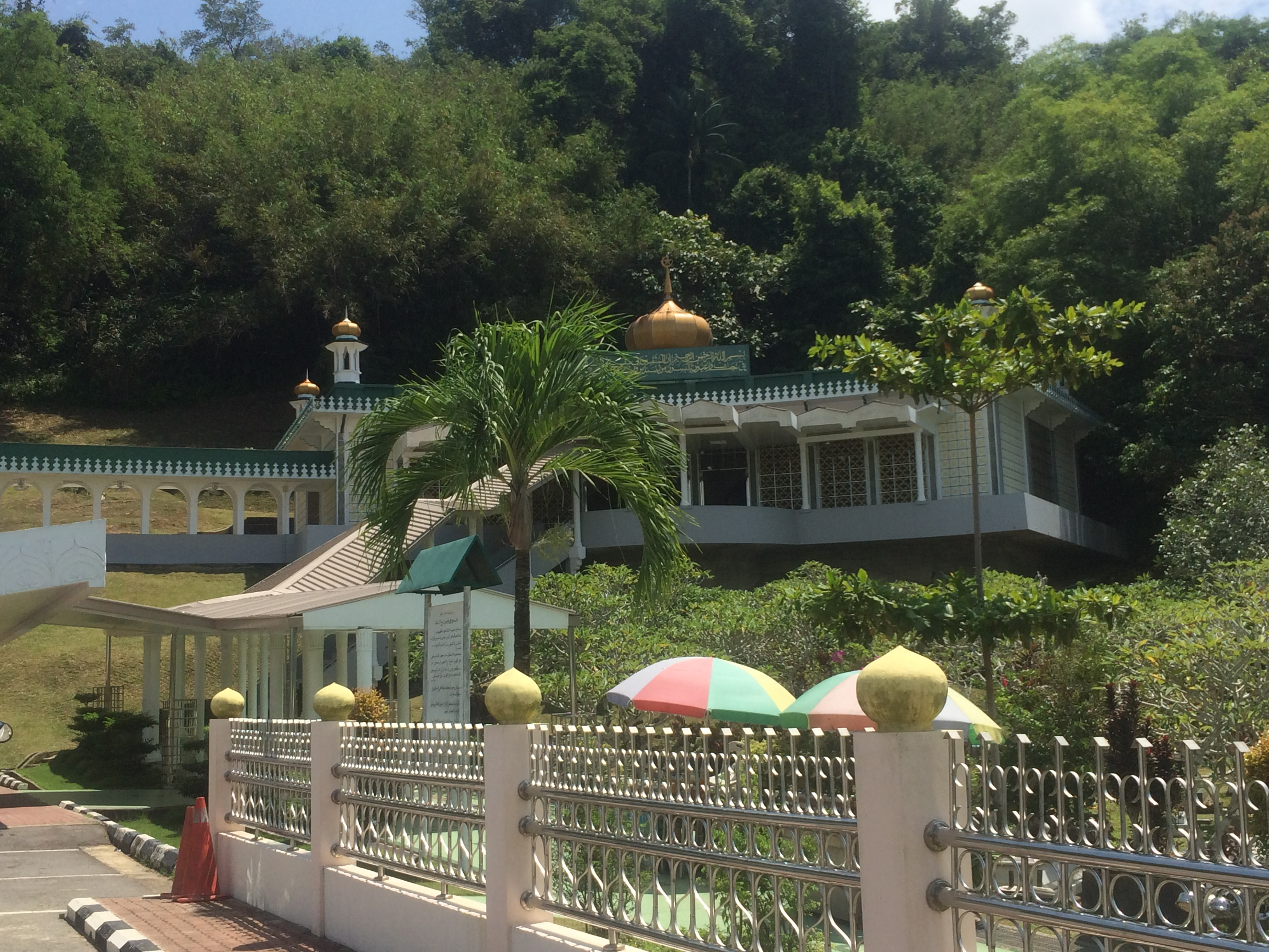 The main dorm of the Brunei Royal Mausoleum or Kubah Makam Diraja at Bandar Seri Begawan, Brunei.